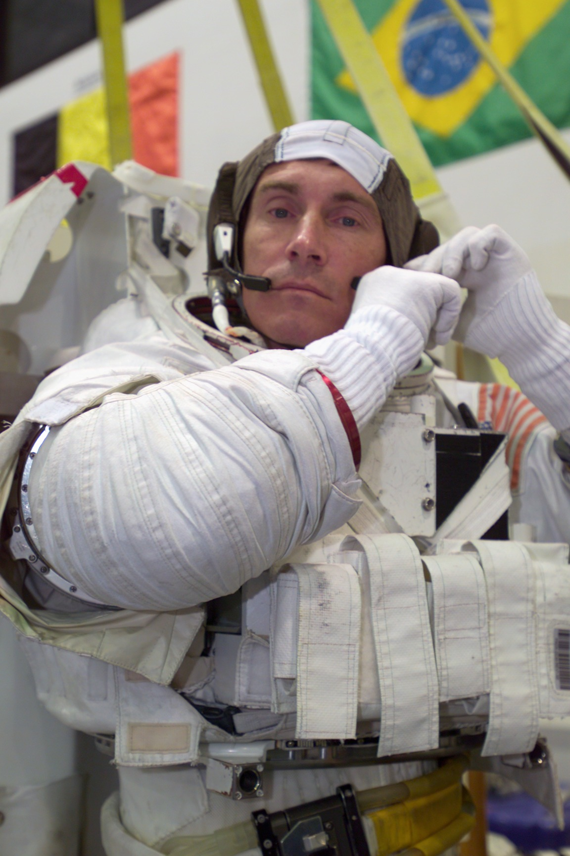 Cosmonaut Sergei K. Krikalev, Expedition 11 commander representing Russia's Federal Space Agency, dons a training version of the Extravehicular Mobility Unit (EMU) space suit prior to being submerged in the waters of the Neutral Buoyancy Laboratory (NBL) near the Johnson Space Center (JSC)